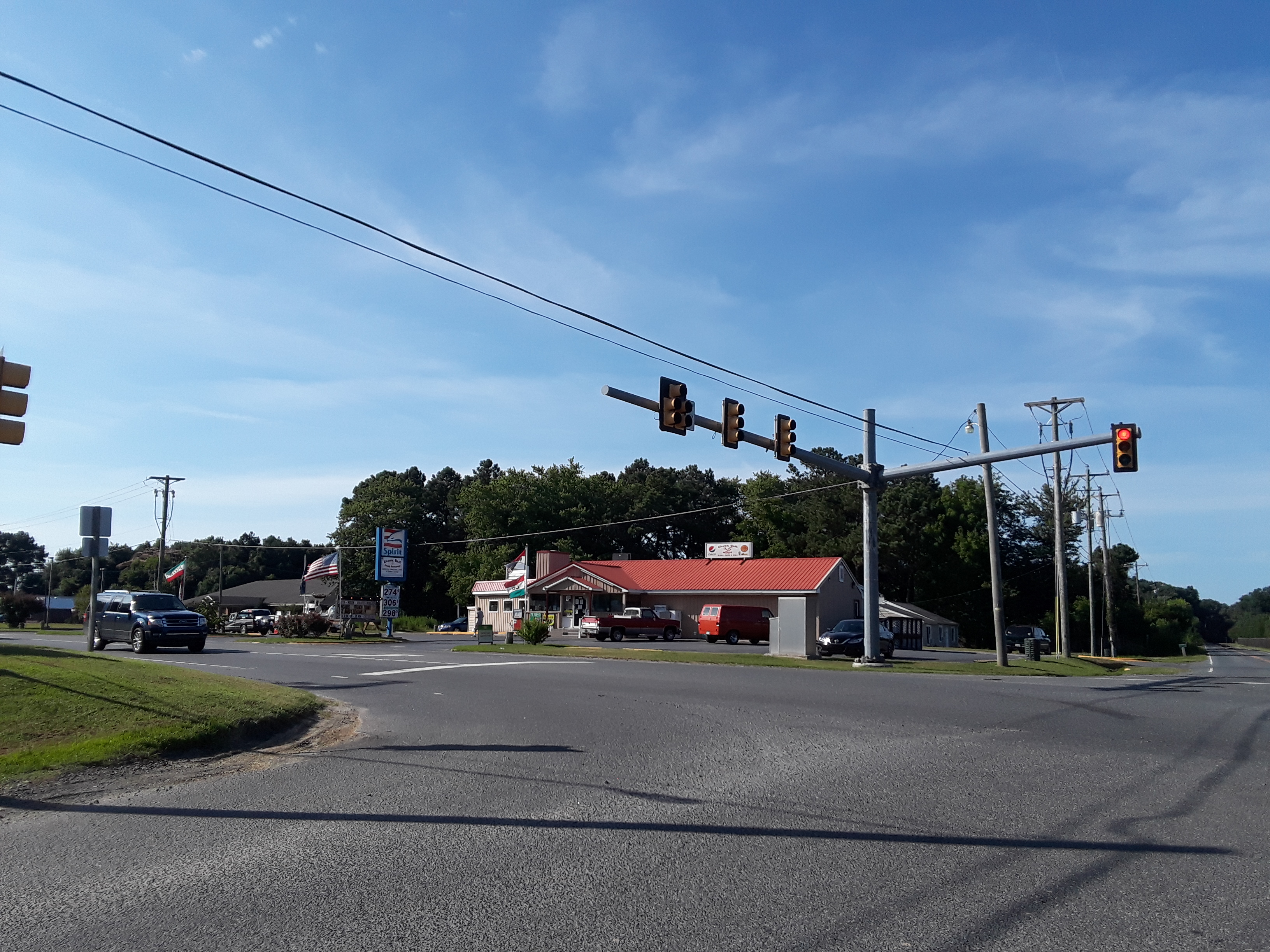 Taken on a visit to the Eastern Shore of Virginia, July 2018